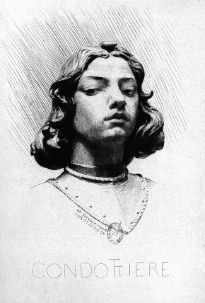 Condottiere by Jean-Désiré Ringel d'Illzach (1847-1916)